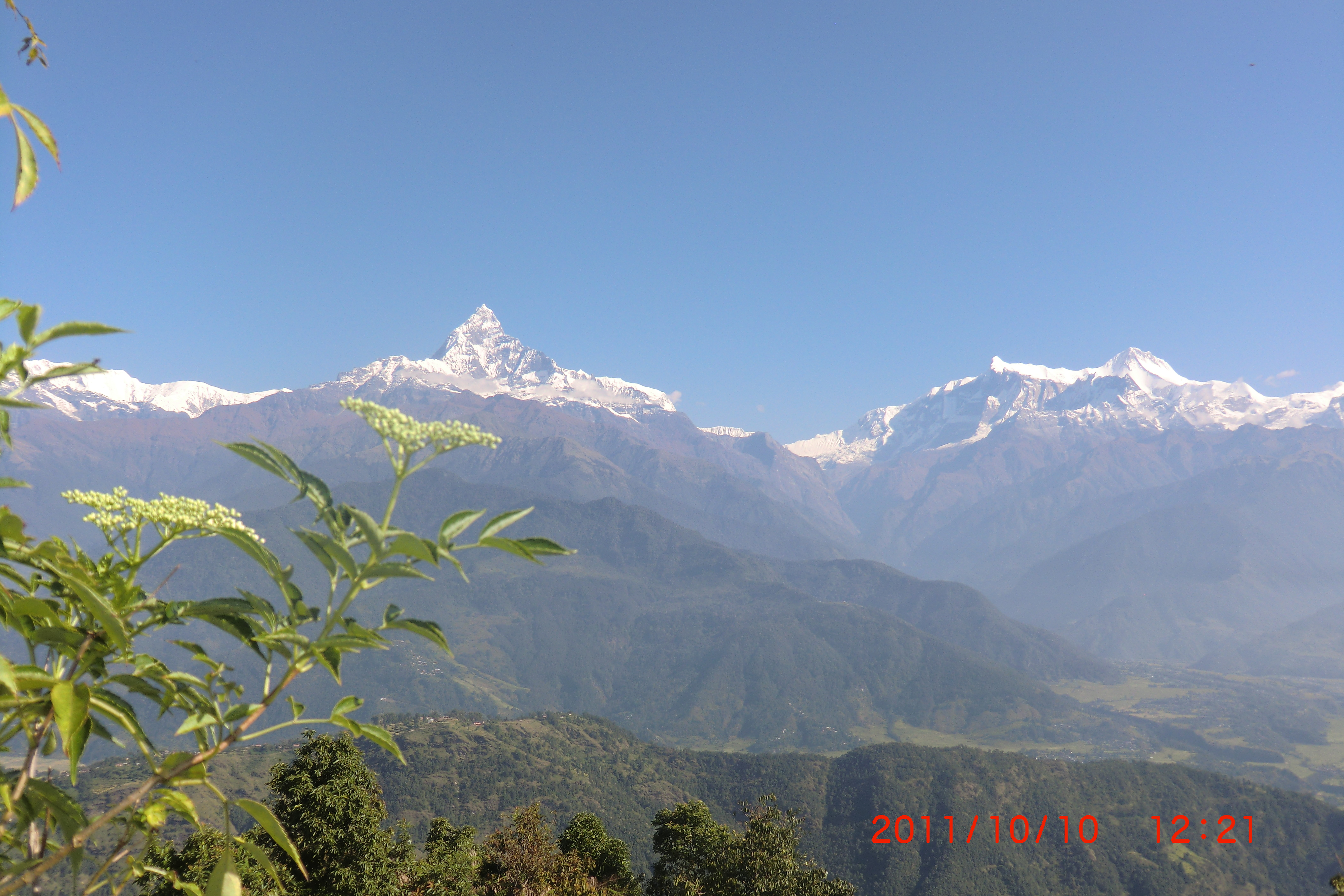 This photo was taken during october 2011